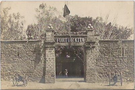 The French Fort at Kita, Mali (1904) French Military postcard, dated 1904.